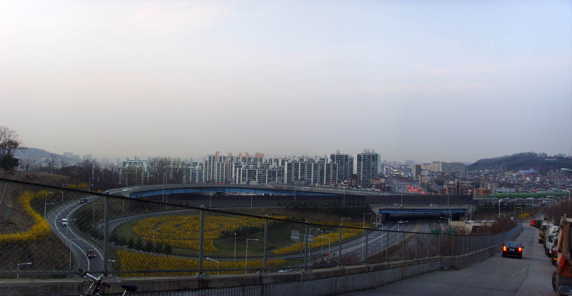 Second Gyeongin Expressway Munhak Interchange